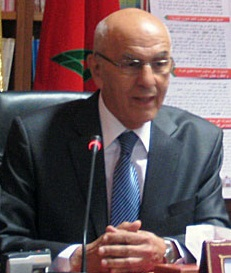 Mohamed Taieb Naciri former Minister of Justice of Morocco (cropped version